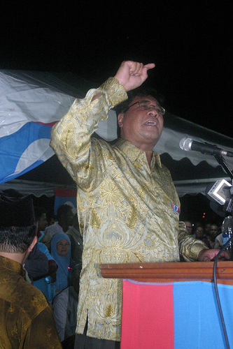 Khalid Ibrahim announcing his candidacy for the Ijok by-election of 2007 on the ticket of Parti Keadilan Rakyat.